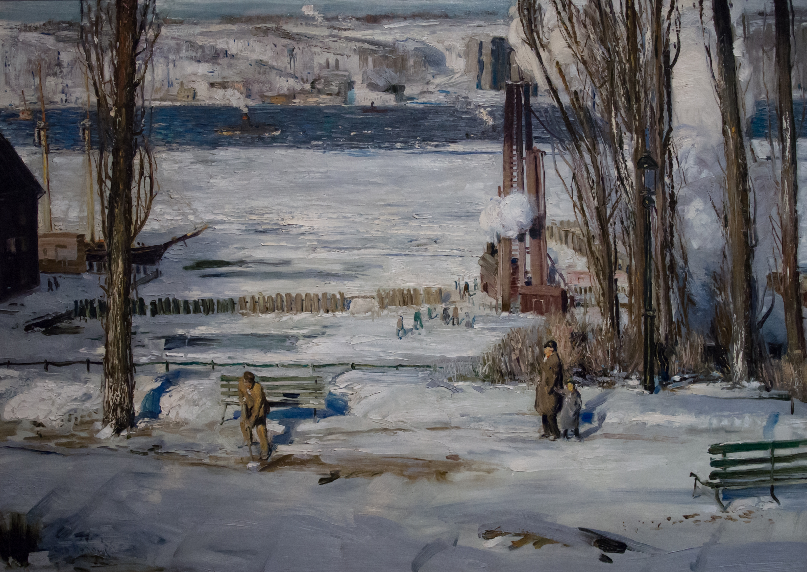 A Morning Snow--Hudson River by George Wesley Bellows. At the Brooklyn Museum.